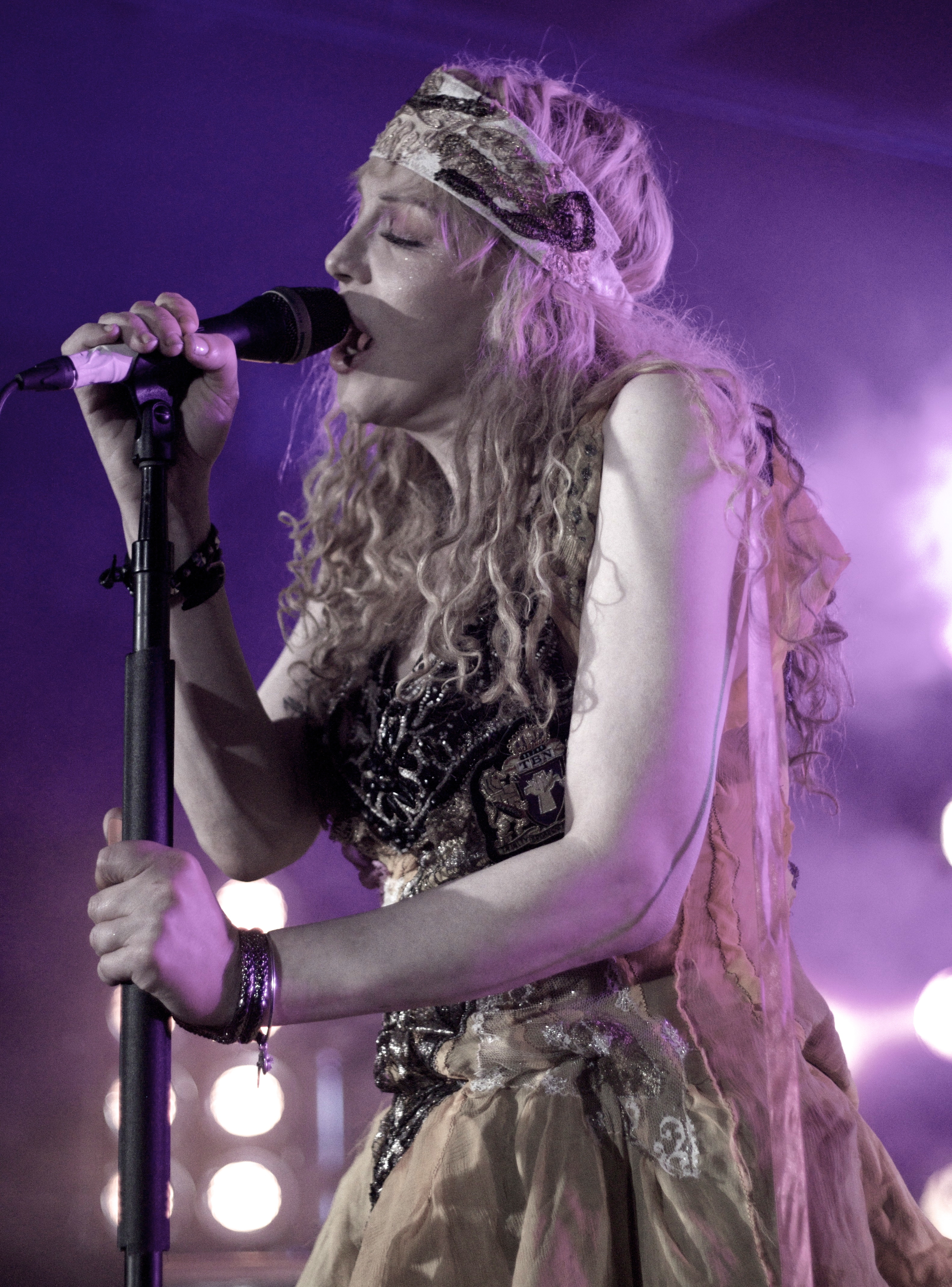 Love in Austin, TX at Perez Hilton after party